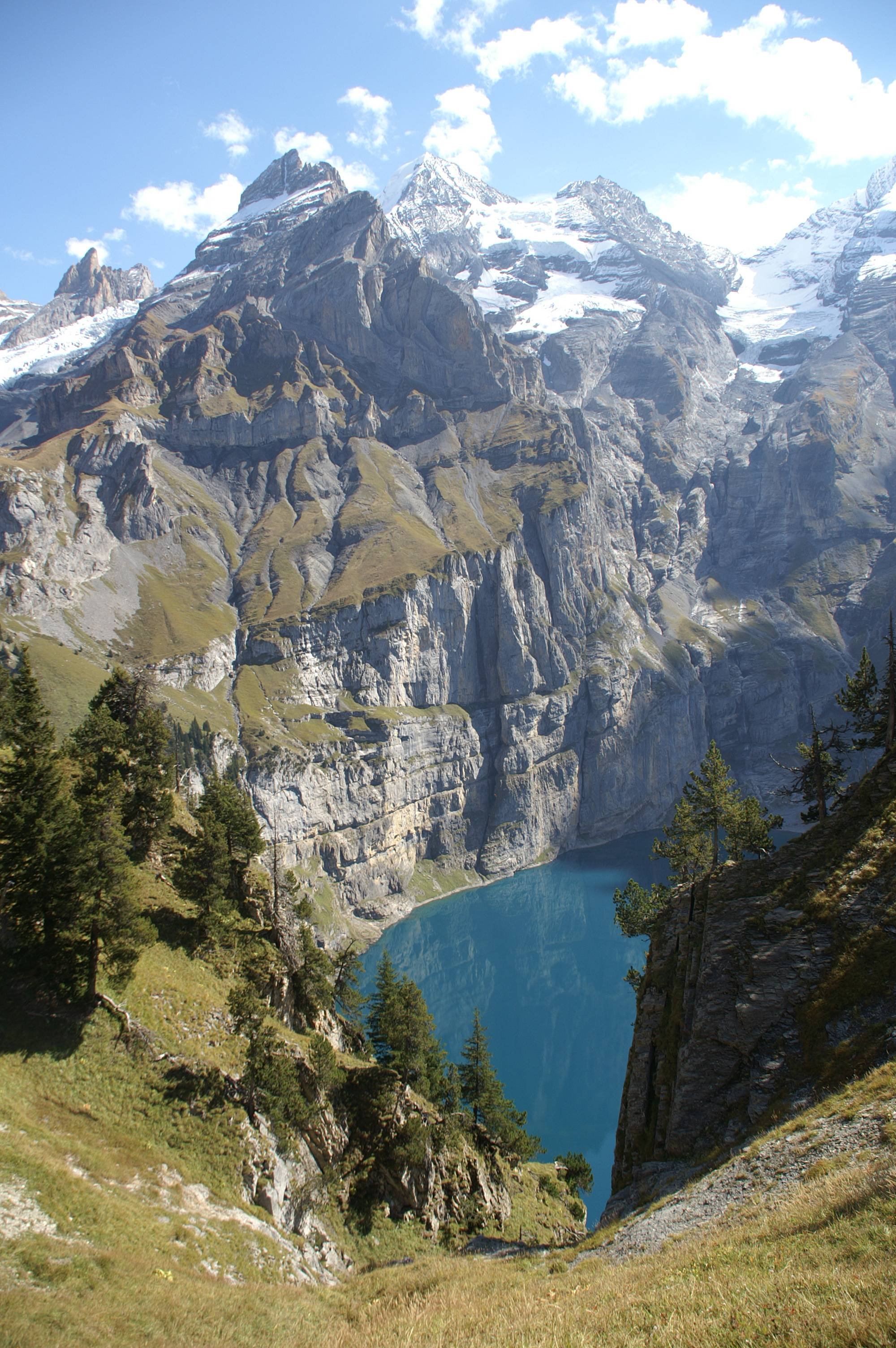 Oeschinensee, Switzerland